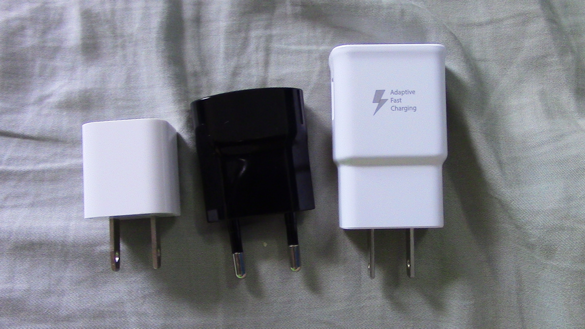 Common sizes of USB AC adapters